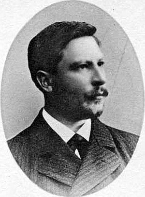 Stepan Vasil’evič Koršun (1868—1931) Russian microbiologist